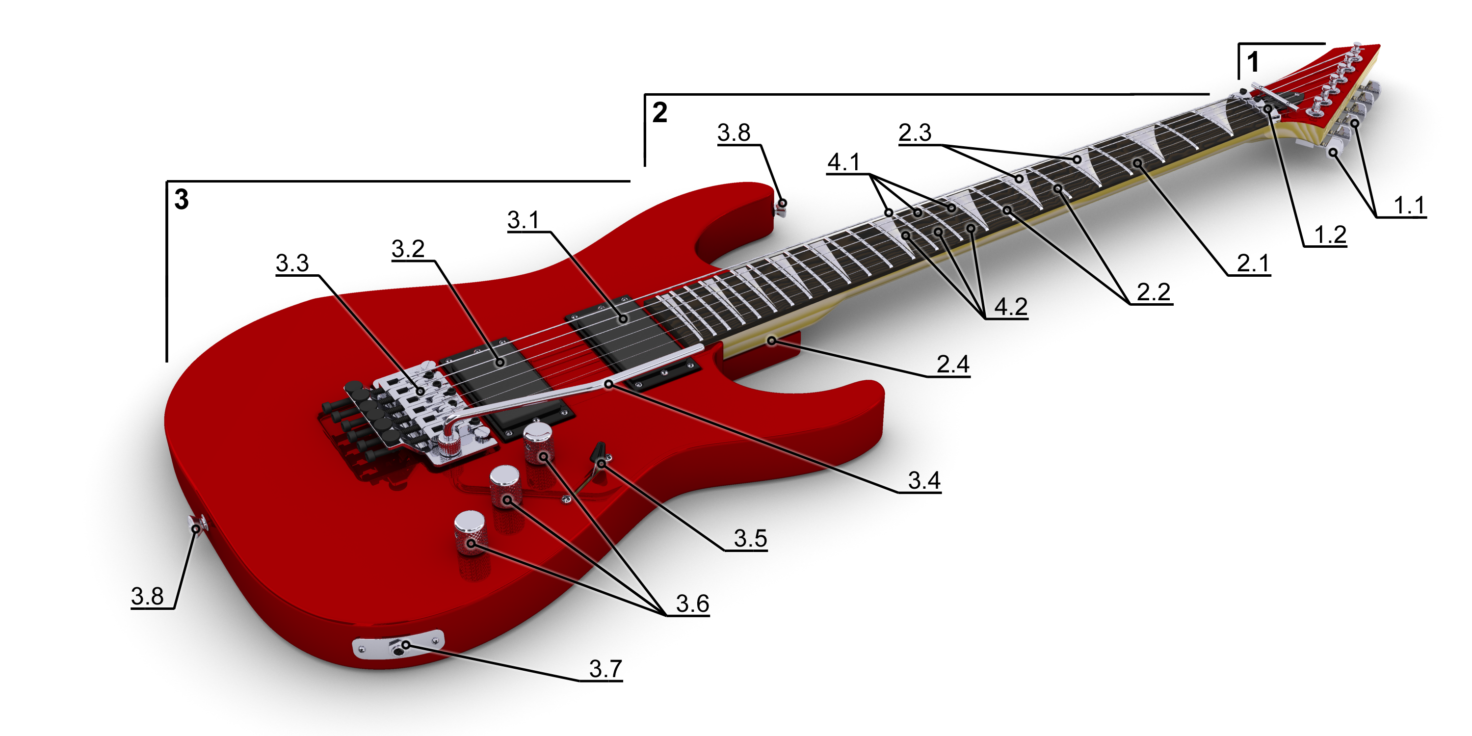 Electric Guitar based on ESP KH model.